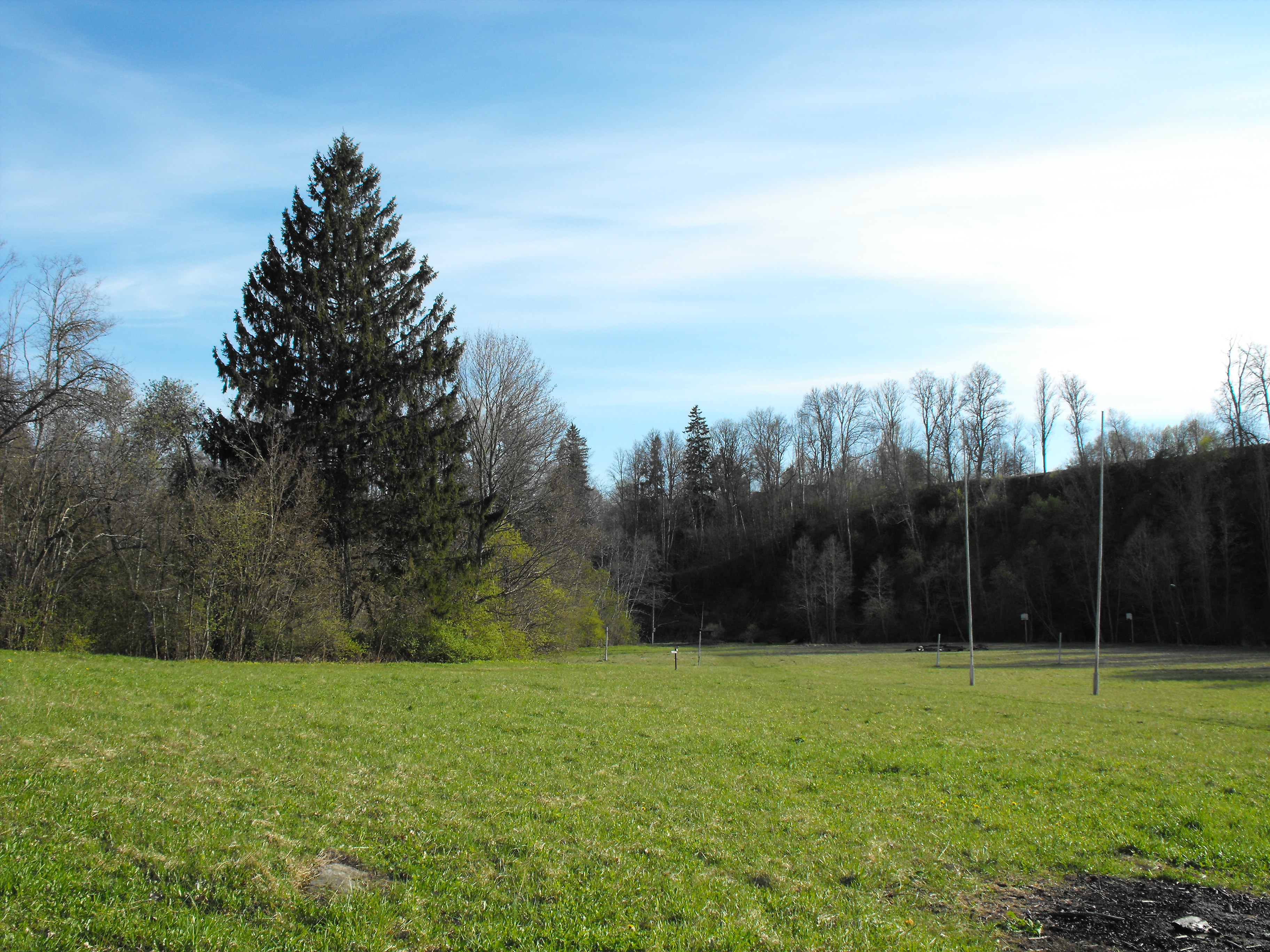 Buses hillfort in Matkule parish, Latvia